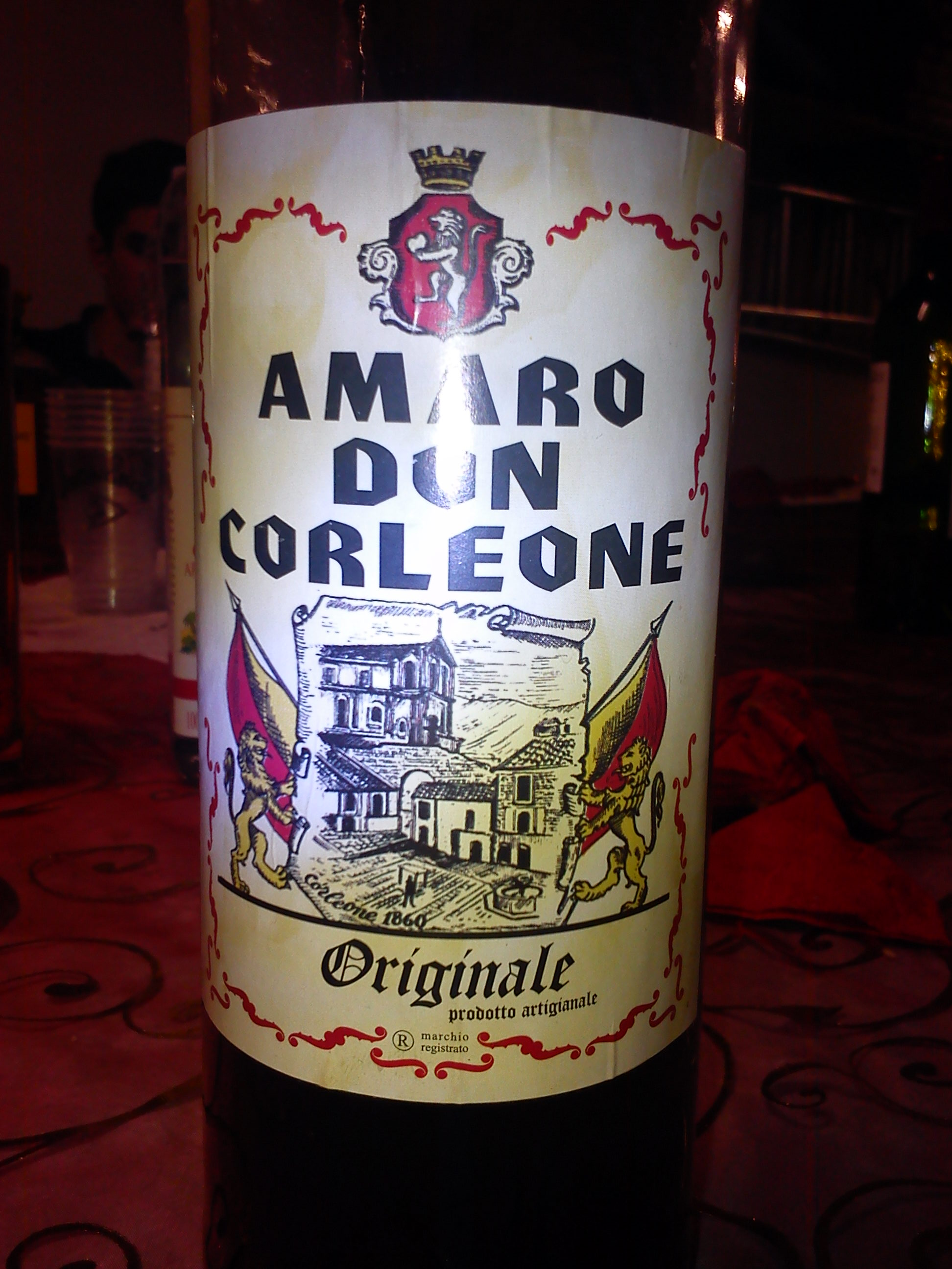 Bottle of Amaro Don Corleone, front label